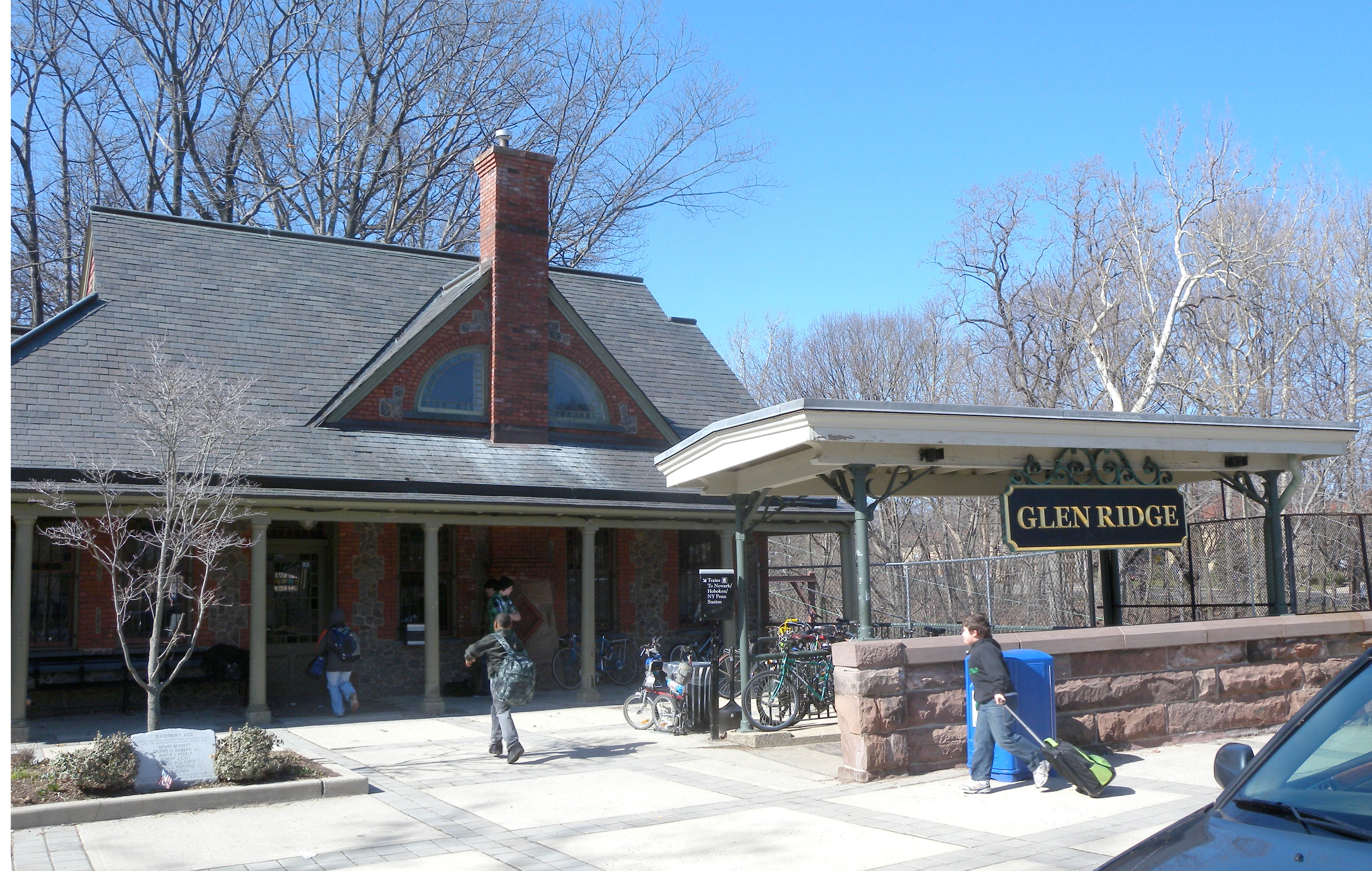 Looking north at station house of Glen Ridge (NJT station) on a sunny early afternoon. Small bike is photographer's.